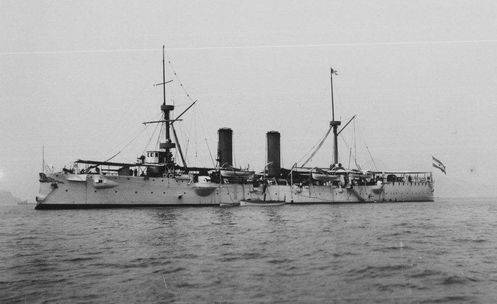 The ARA 9 de Julio, a protected cruiser of the Argentine Navy. It was built in 1892 and was discarged in 1930.